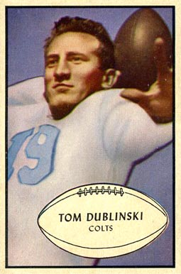 American football player Tom Dublinski on a 1953 Bowman card. "Colts" on the card is an error. He played for the Detroit Lions.